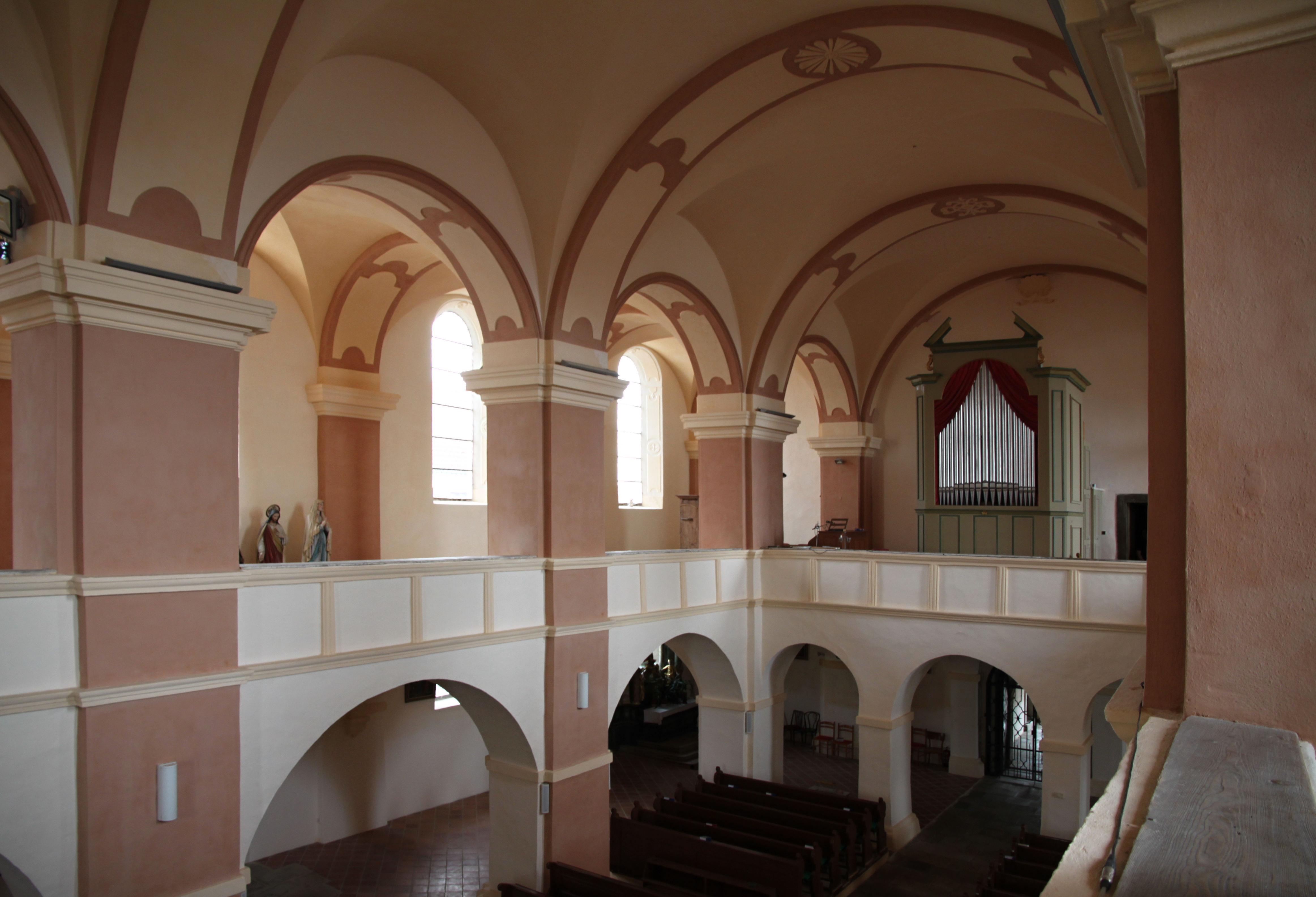 Saint Vitus Church in Rudolfov – interior, České Budějovice District, South Bohemia, Czechia.